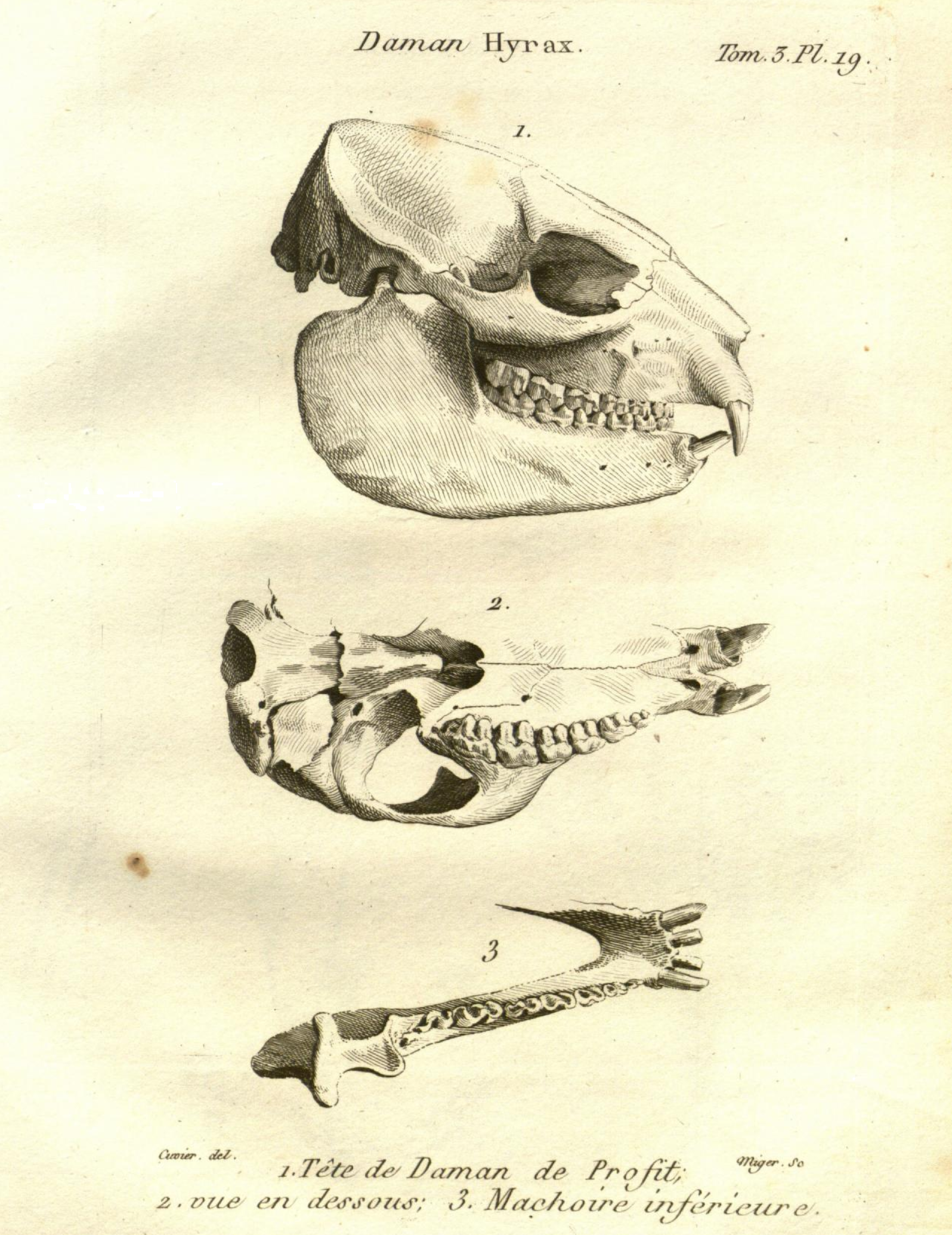 skull of Procavia capensis (MNHN-ZM-AC-A.2339), which Cuvier used in 1804 to define the hyraxes as representatives of the Pachydermata